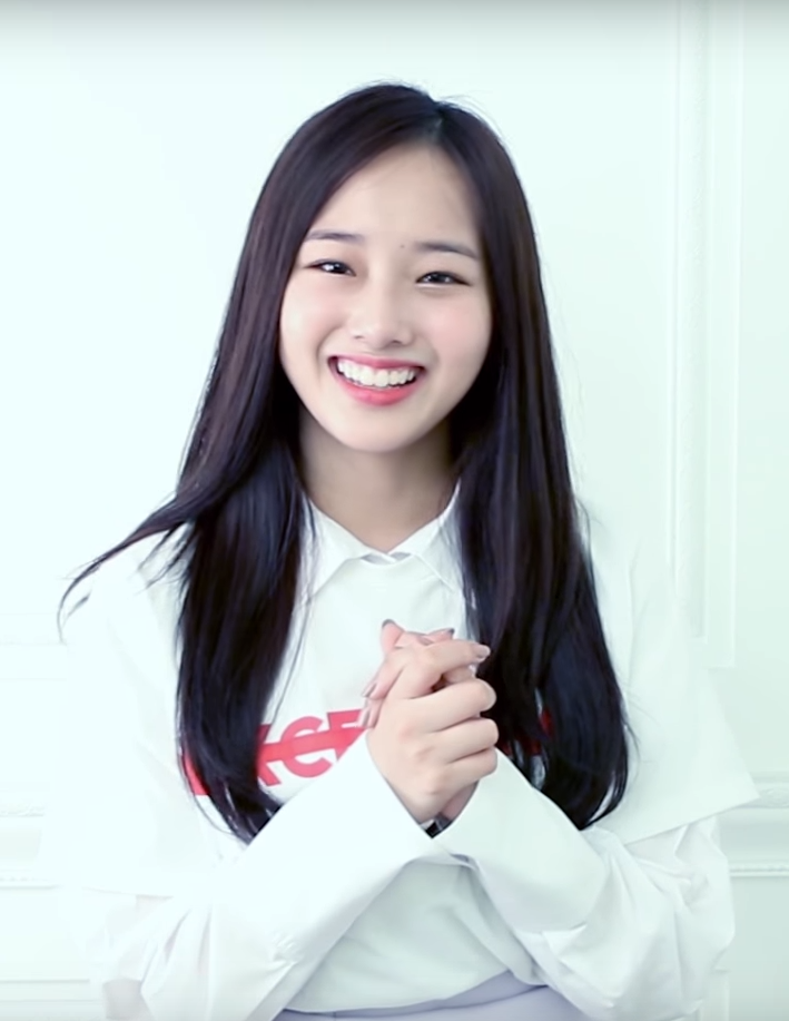 South Korea-based Filipino singer Kriesha Chu in June 2017